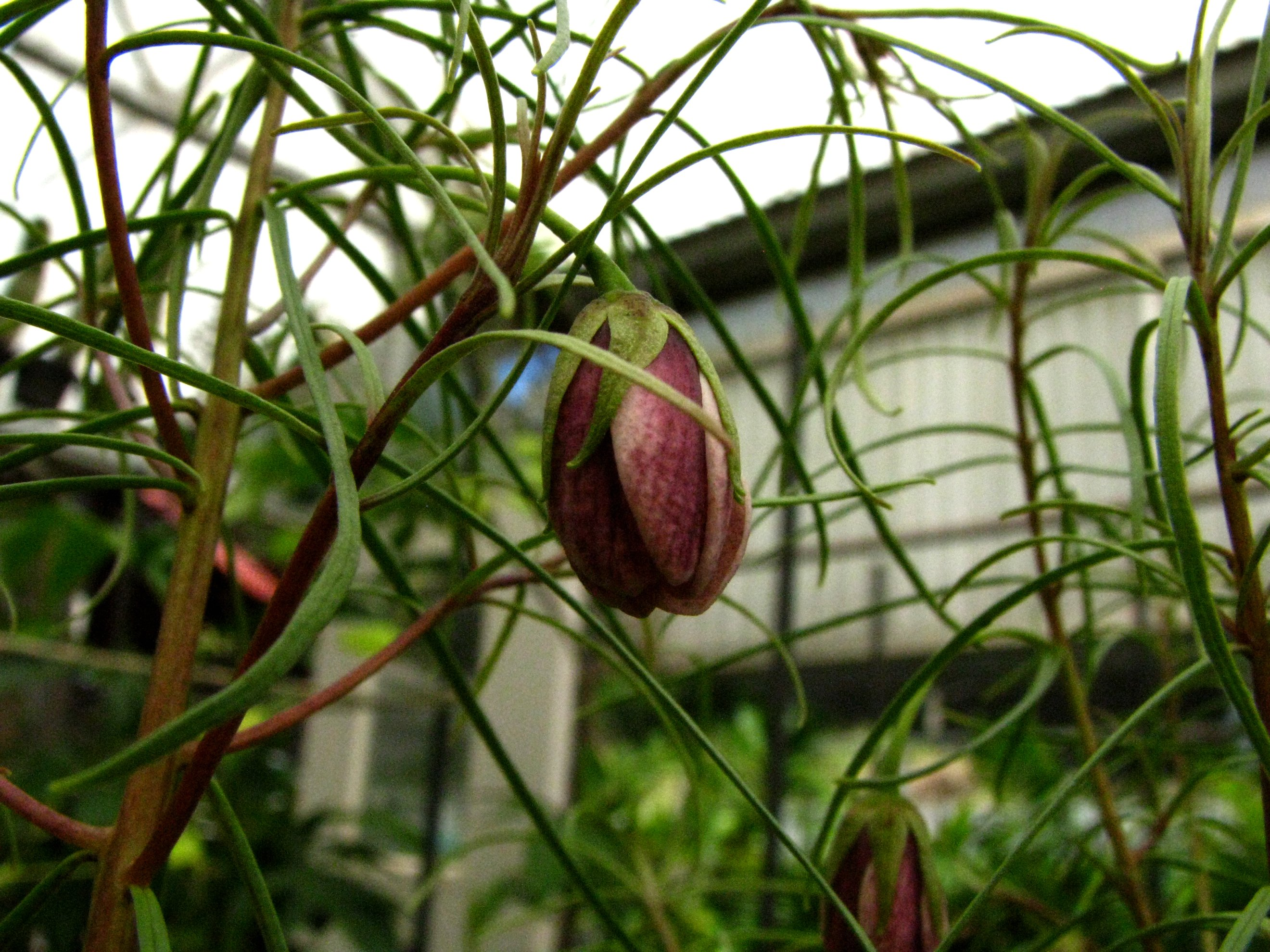 Wailua River yellow loosestrife Primulaceae Endemic to the Hawaiian Islands (Kauaʻi & Oʻahu) Endangered Kauaʻi (Cultivated); Kauaʻi form